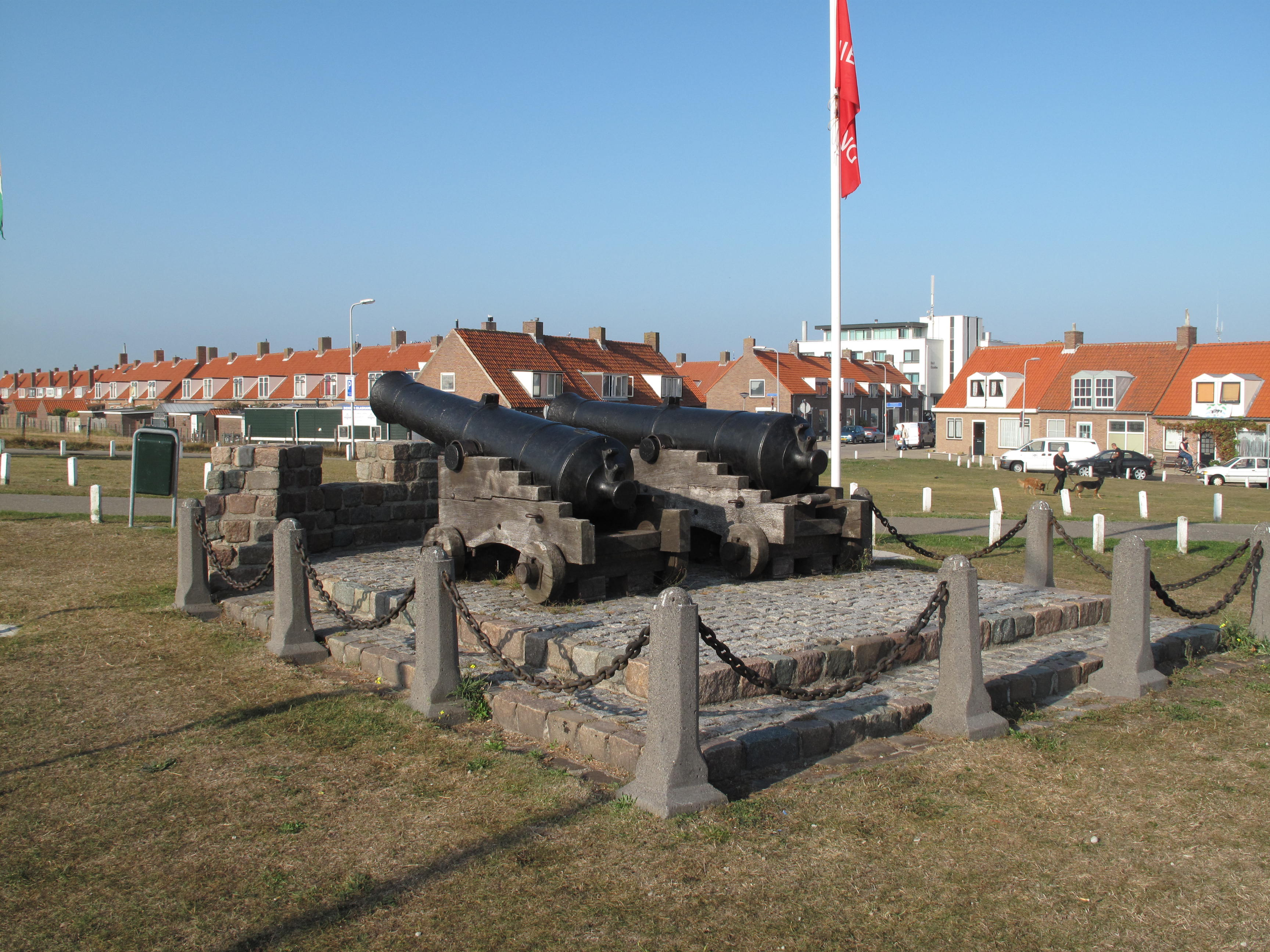 Ter Heijden, canons